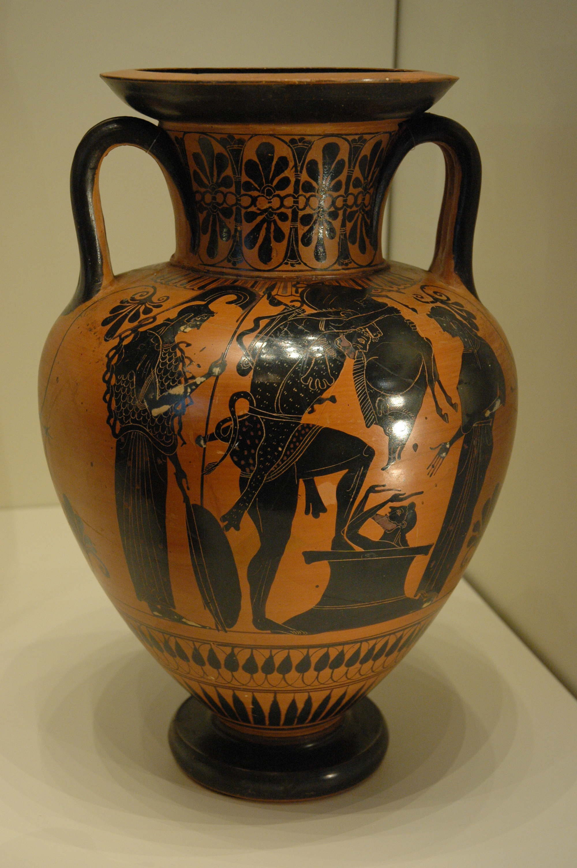 Heracles bringing back the Erymanthian Boar to Eurystheus (hidden in a jar). Attic black-figure amphora, ca. 510 BC.